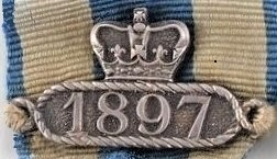 Bar for Victoria Golden Jubilee Medal to commemorate 1897 Diamond Jubilee